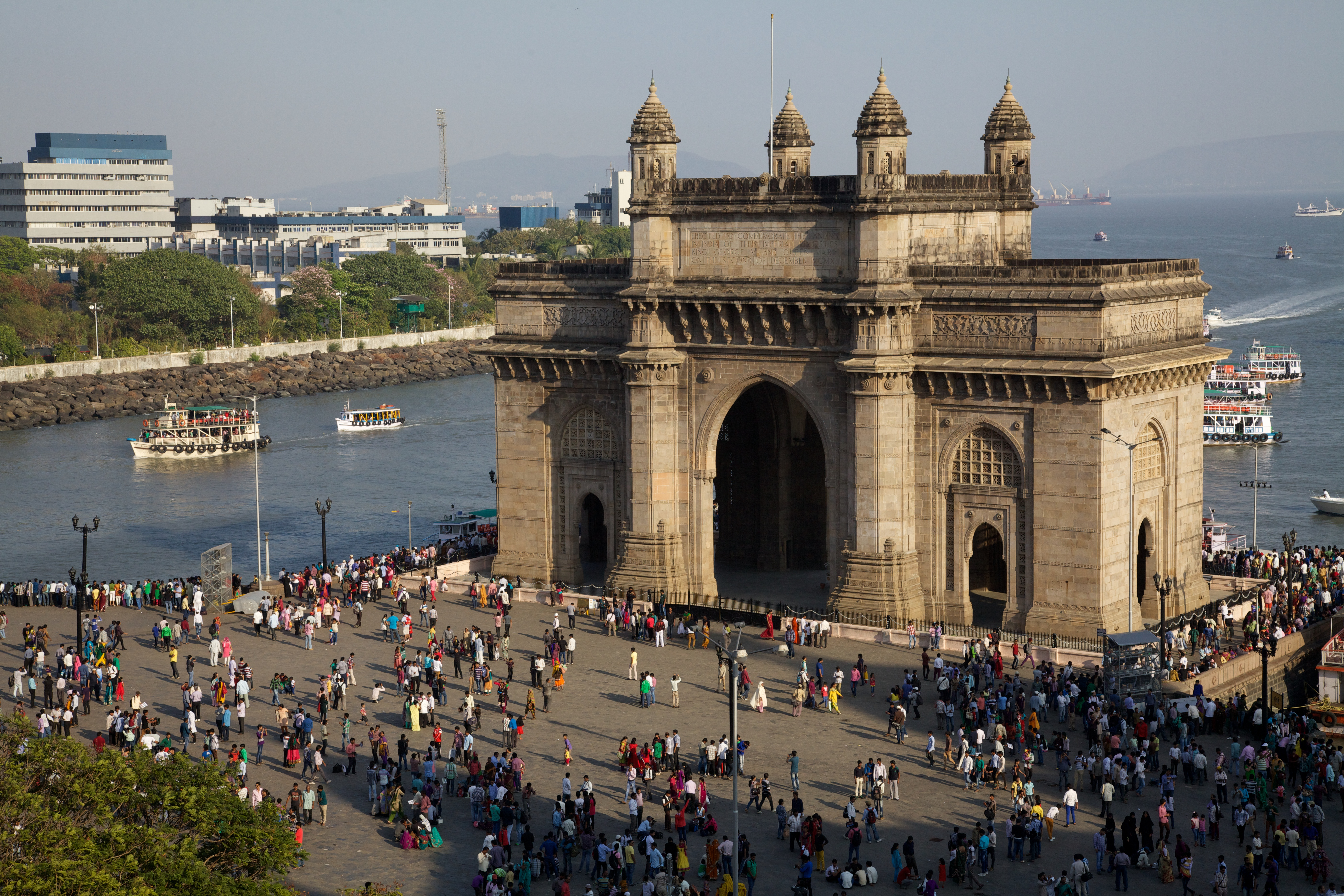 Another photo of this icon from the Taj Mahal Hotel in Mumbai